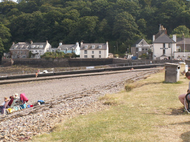 Dale, Pembrokeshire. Dale beach and coastal houses.